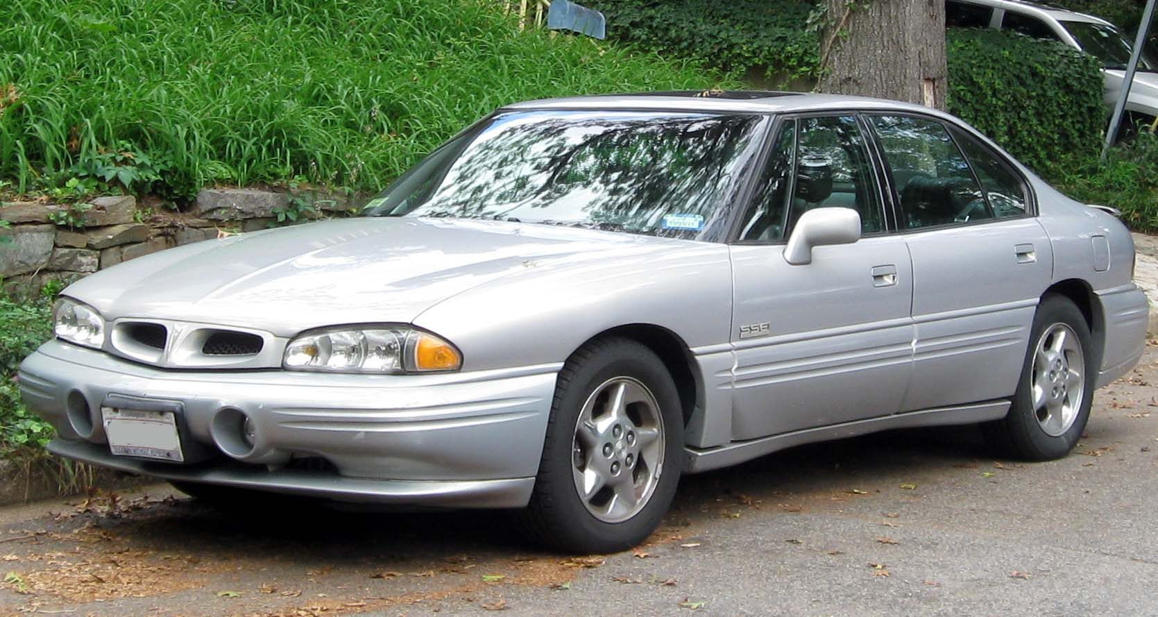 1996-1999 Pontiac Bonneville photographed in Washington, D.C., USA.